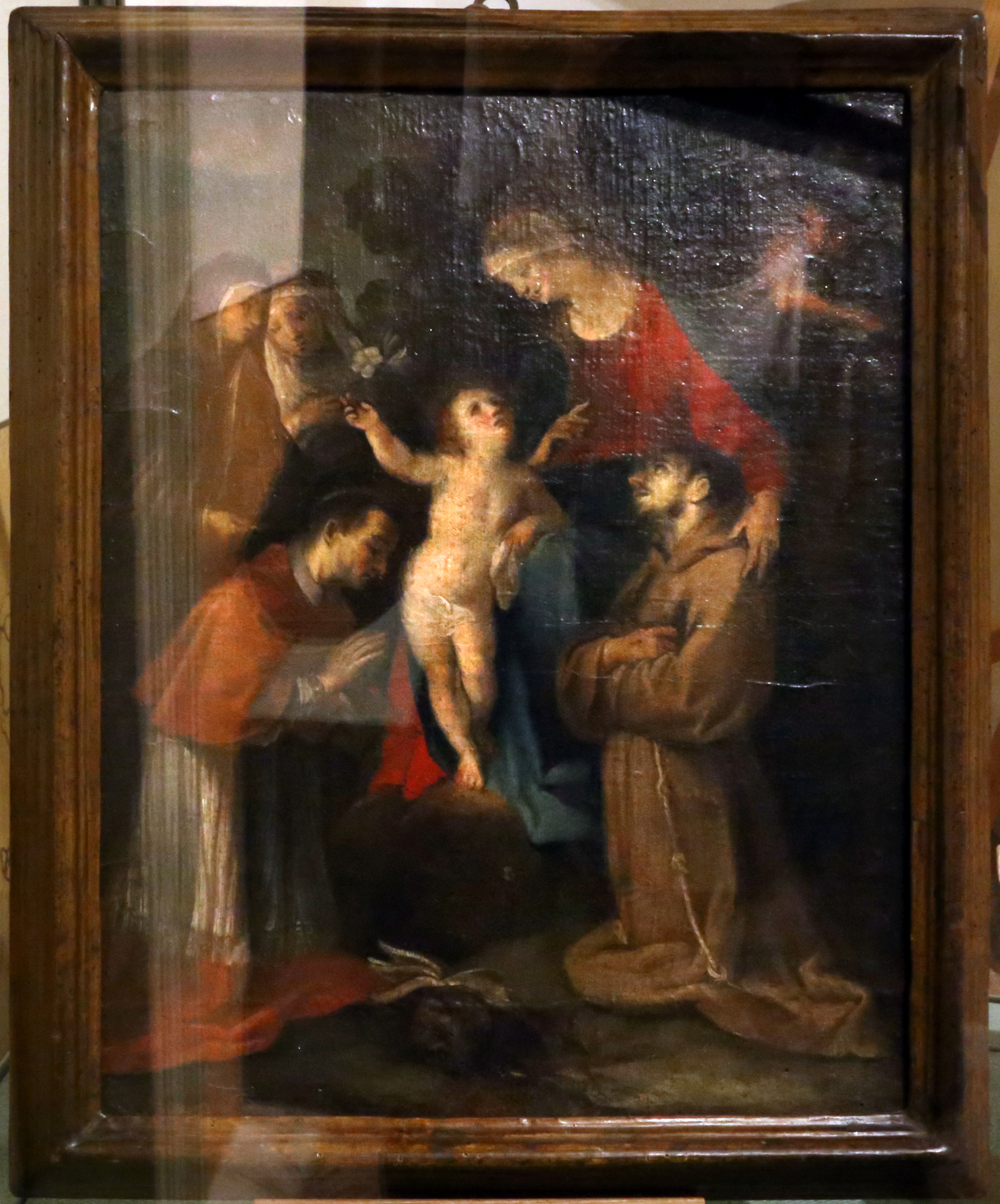 Il Buon Secolo della Pittura Senese (2017 exhibition - Pienza)